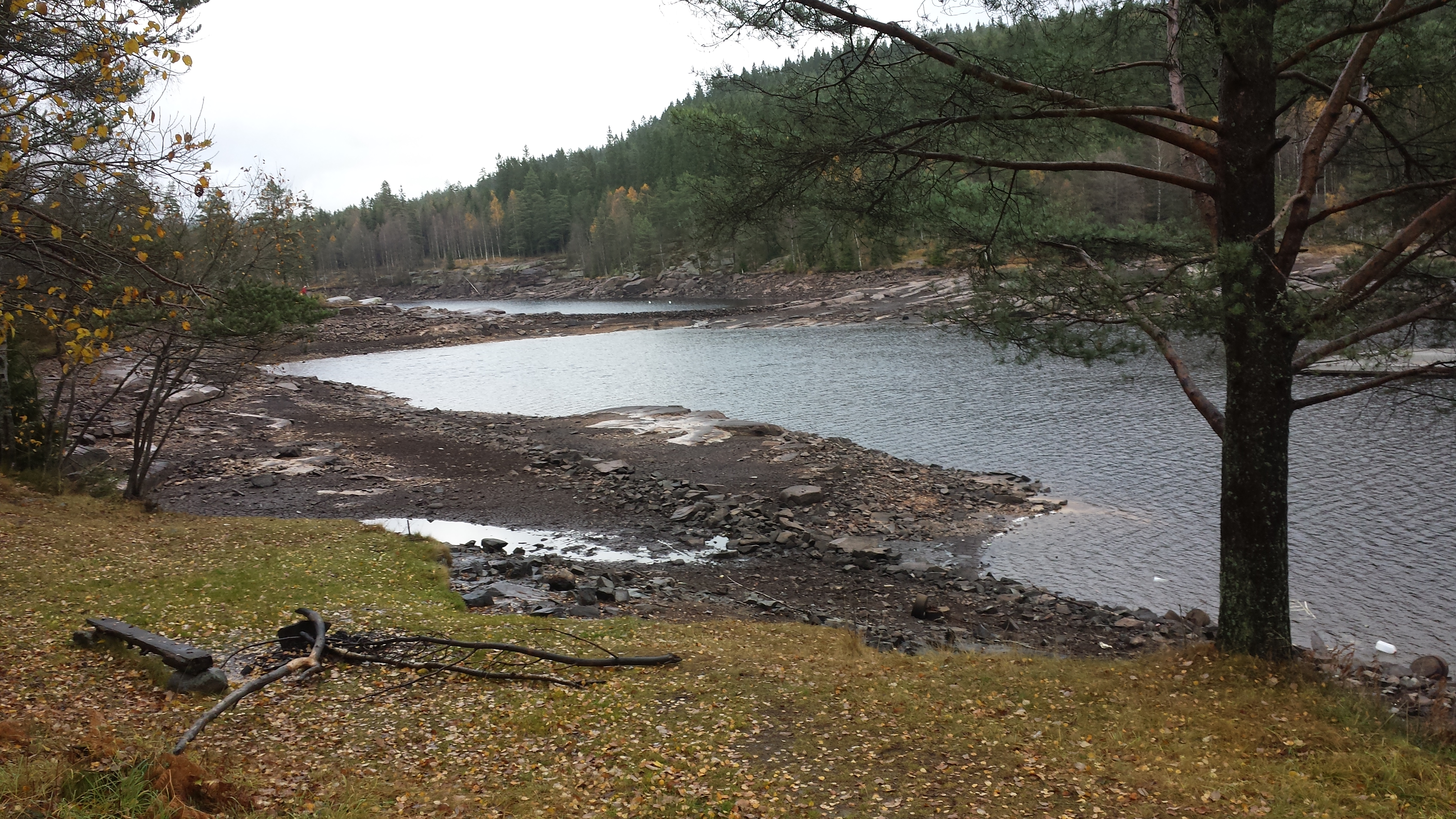 Bridge over Steinbruvannet, Oslo, Norway. Part of the Bergen Kings Road opened in 1793, submerged in 1875